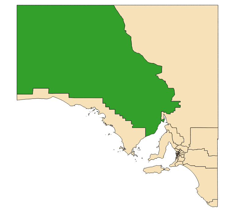 Electoral district 2018 boundaries shown in green